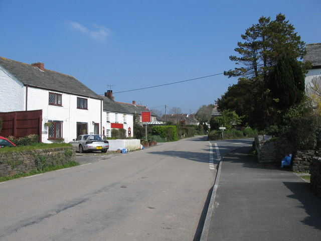 St. Kew Highway A view looking north along what used to be the main A39 route, until the by-pass was constructed. The Red Lion public house is on the left.